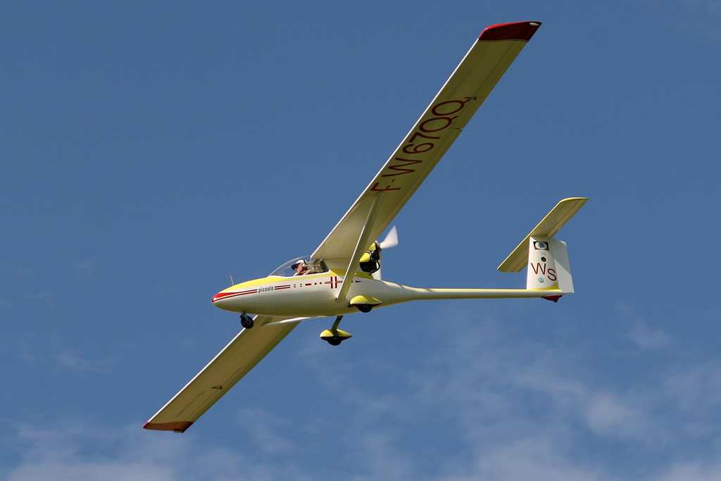 Technoflug Piccolo F-W67QQ Tannkosh 2008